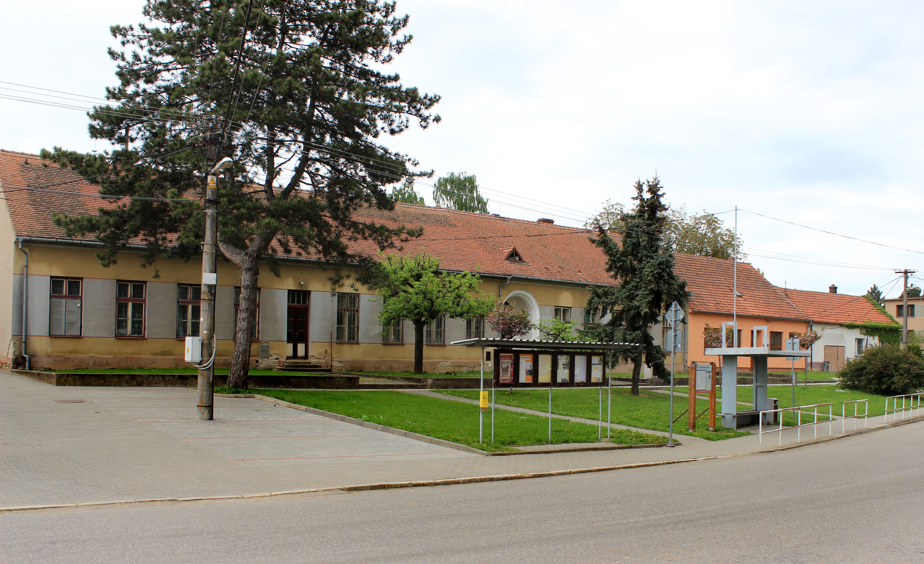 Common in Dobřínsko, Czech Republic.